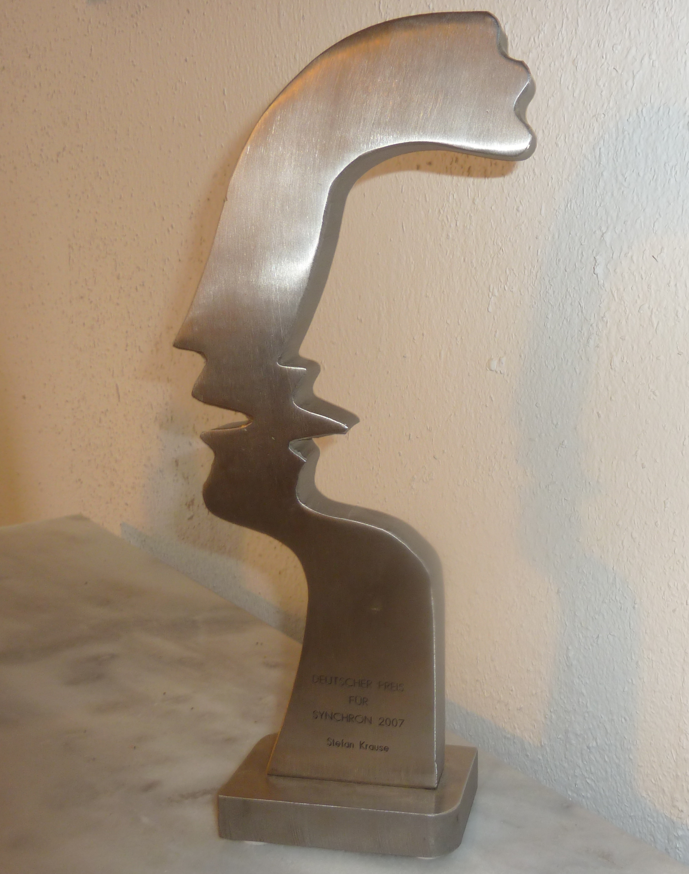 German Award for Dubbing (filmmaking)